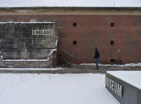 Entrance to the historical-technical museum at Peenemünde, Germany. This building is one of the few original buildings still remaining.